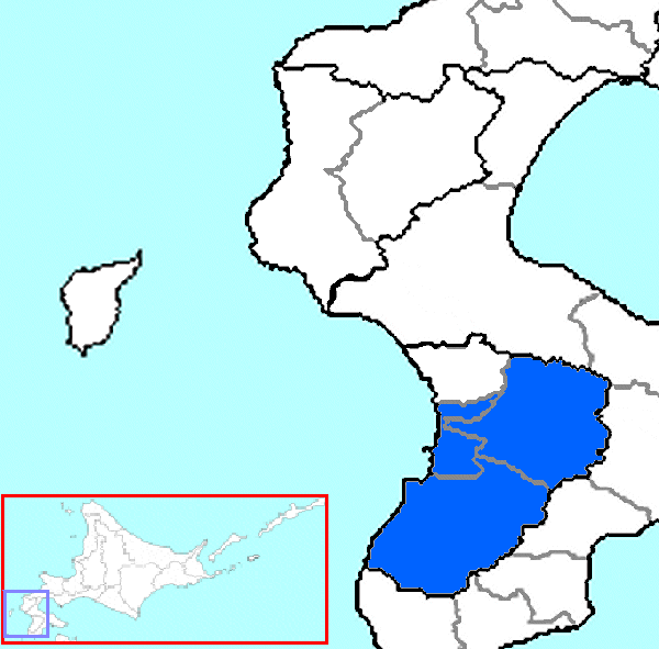 The location of Assabu in Hiyama Subprefecture, Hokkaido Prefecture, Japan.